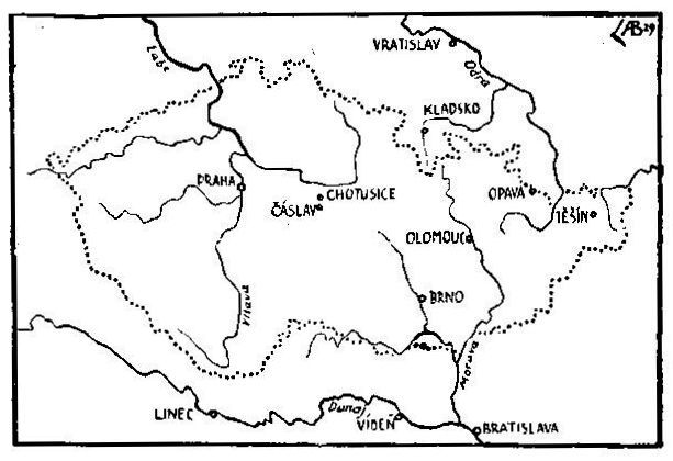 Map showing Czech state from the half of the 18th century to the First World War (Lands of the Bohemian Crown being part of the Austrian Empire and later on Austria-Hungary; the state formation was not formally abolished but was factually non-existent at that time).